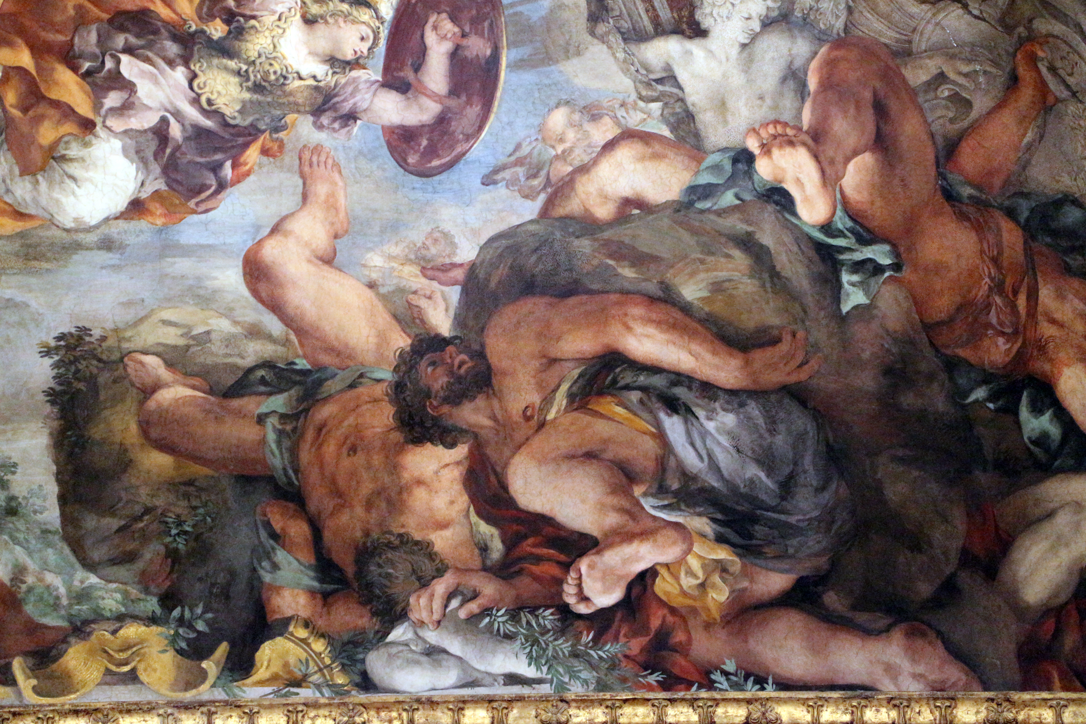 Triumph of the Divine Providence by Pietro da Cortona